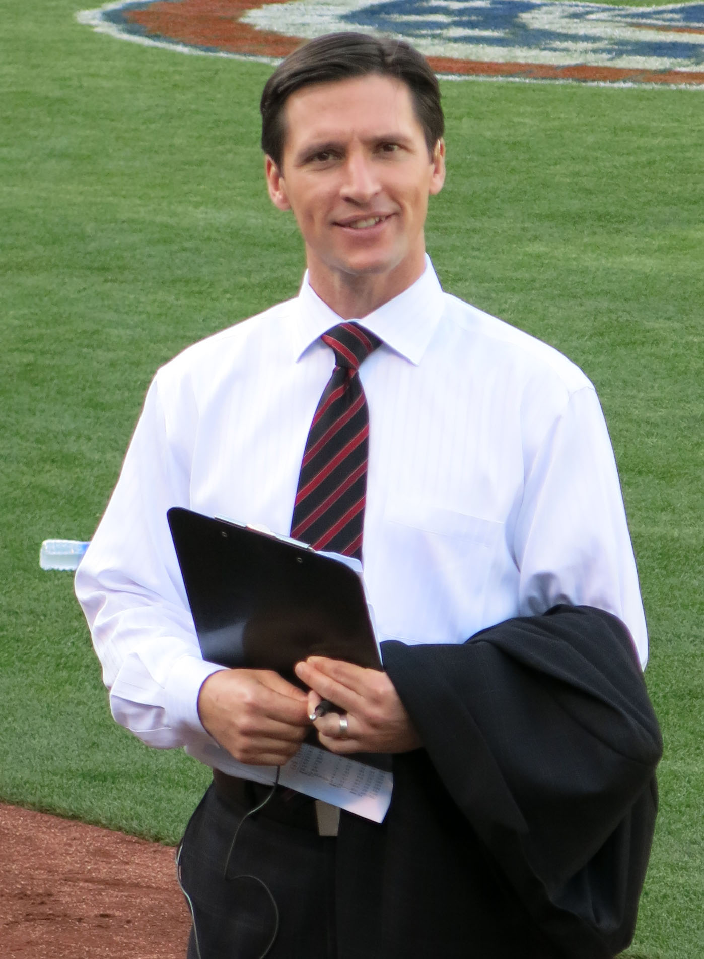 ROOT Sports broadcaster Brad Adams on the field at a Seattle Mariners vs. Oakland Athletics game in Oakland.